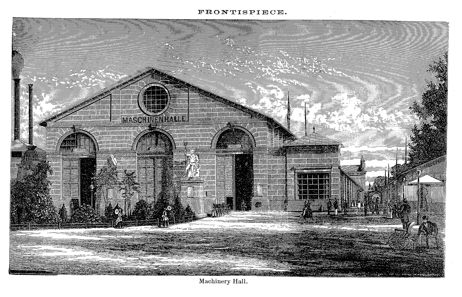 A view of the Maschinenhalle [Machinery Hall] at the Vienna 1873 World Exhibition (Weltausstellung 1873 Wien).